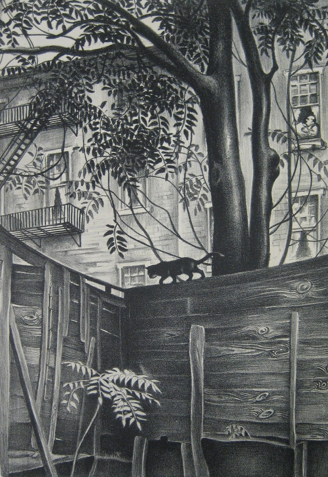 Mabel Dwight, Backyard, lithograph on stone, 35.7 x 25.1 cm, edition of 25 printed by the Federal Art Project